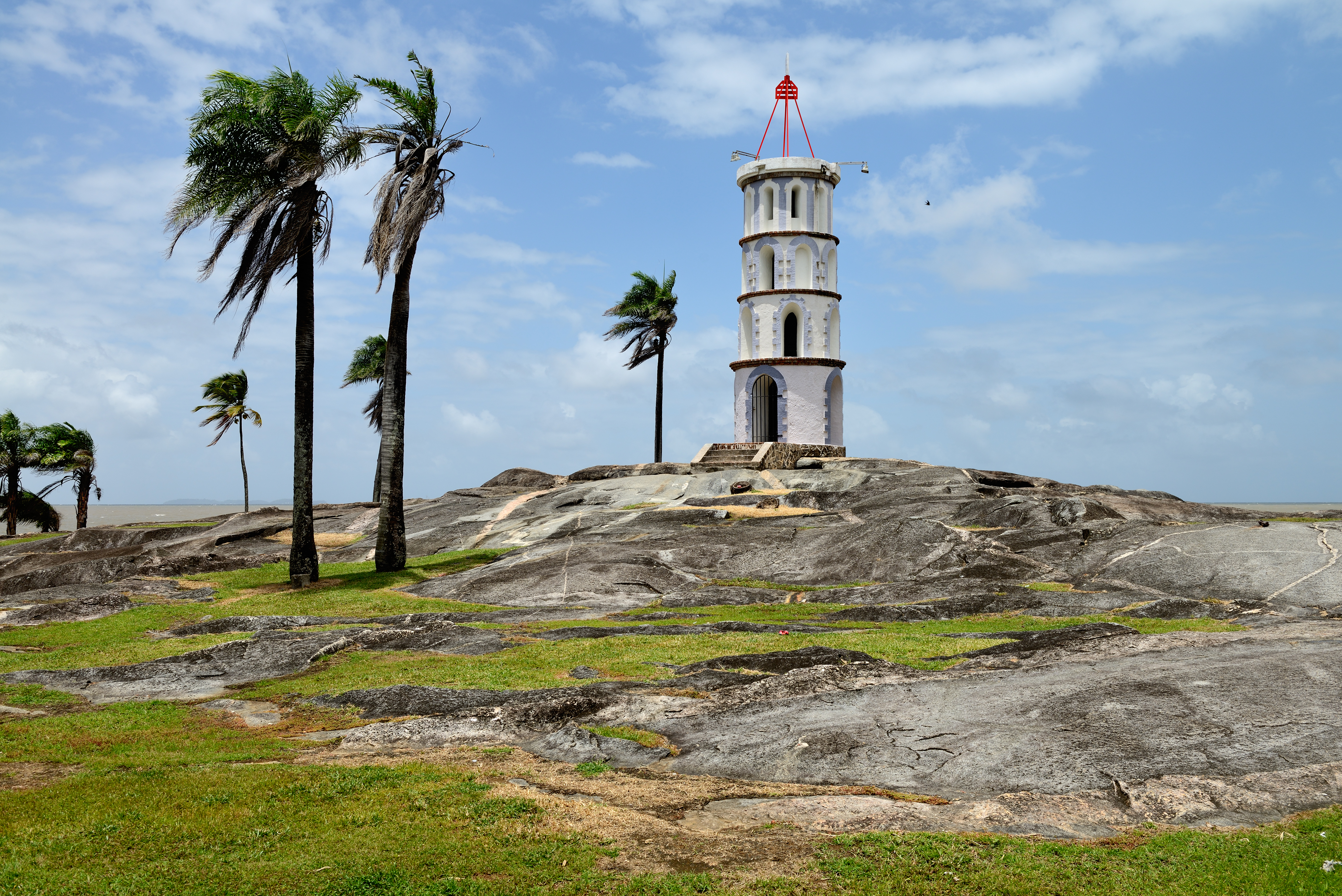 French Guiana, Kourou: tour Dreyfus at Pointe des roches.